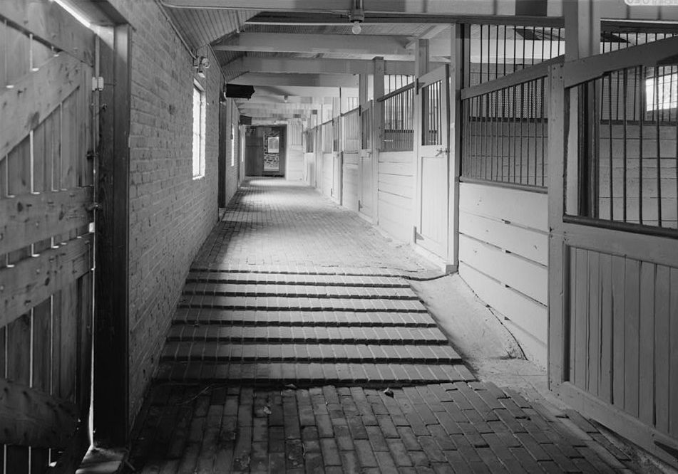 STABLES of Belair Mansion Plantation: INTERIOR VIEW OF NORTH WING OF STABLES, LOOKING WEST, SHOWING STALLS; Collington. On the National Register of Historic Places. Image courtesy of the federal HABS—Historic American Buildings Survey of Maryland.